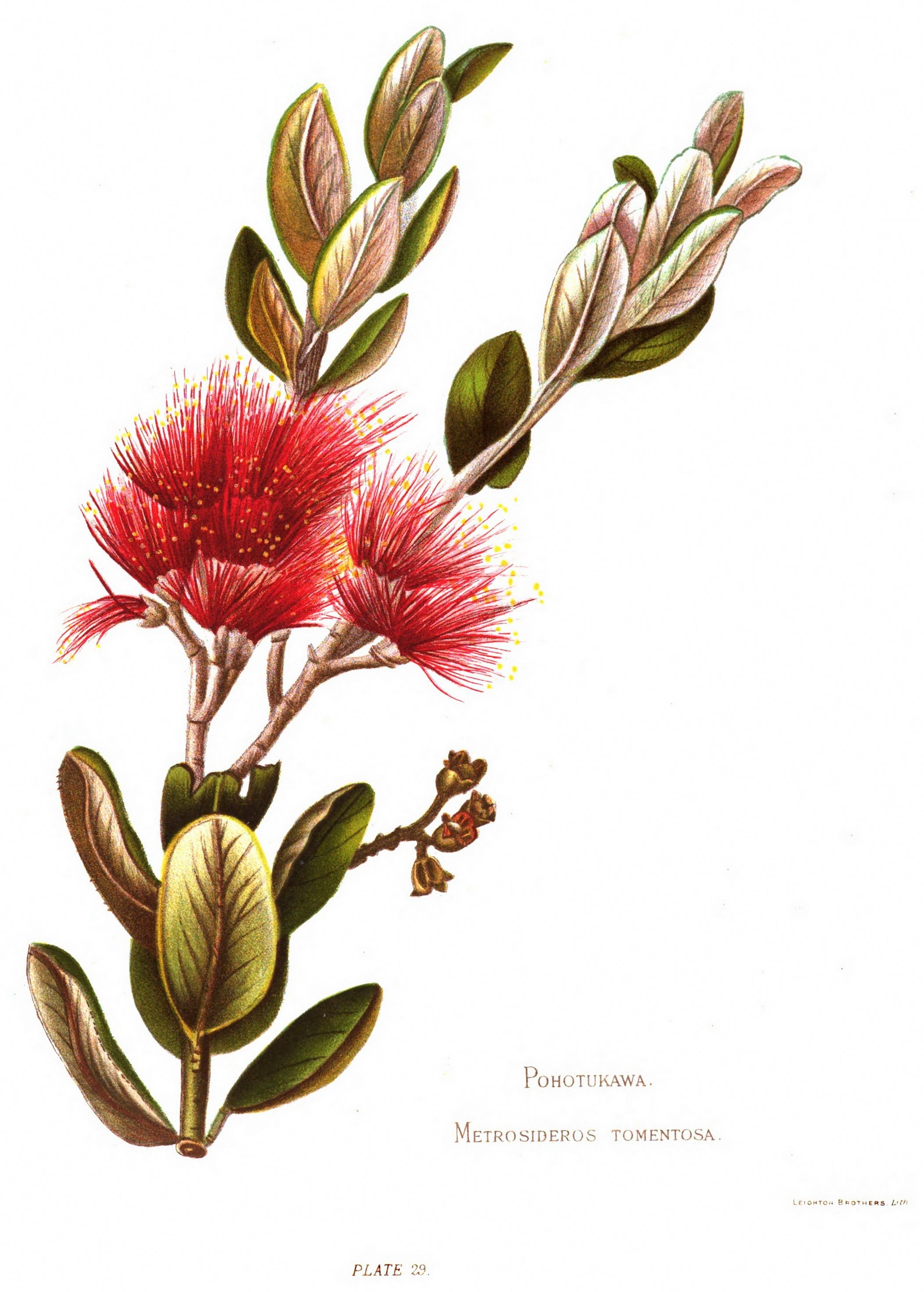 metrosideros fomentosa